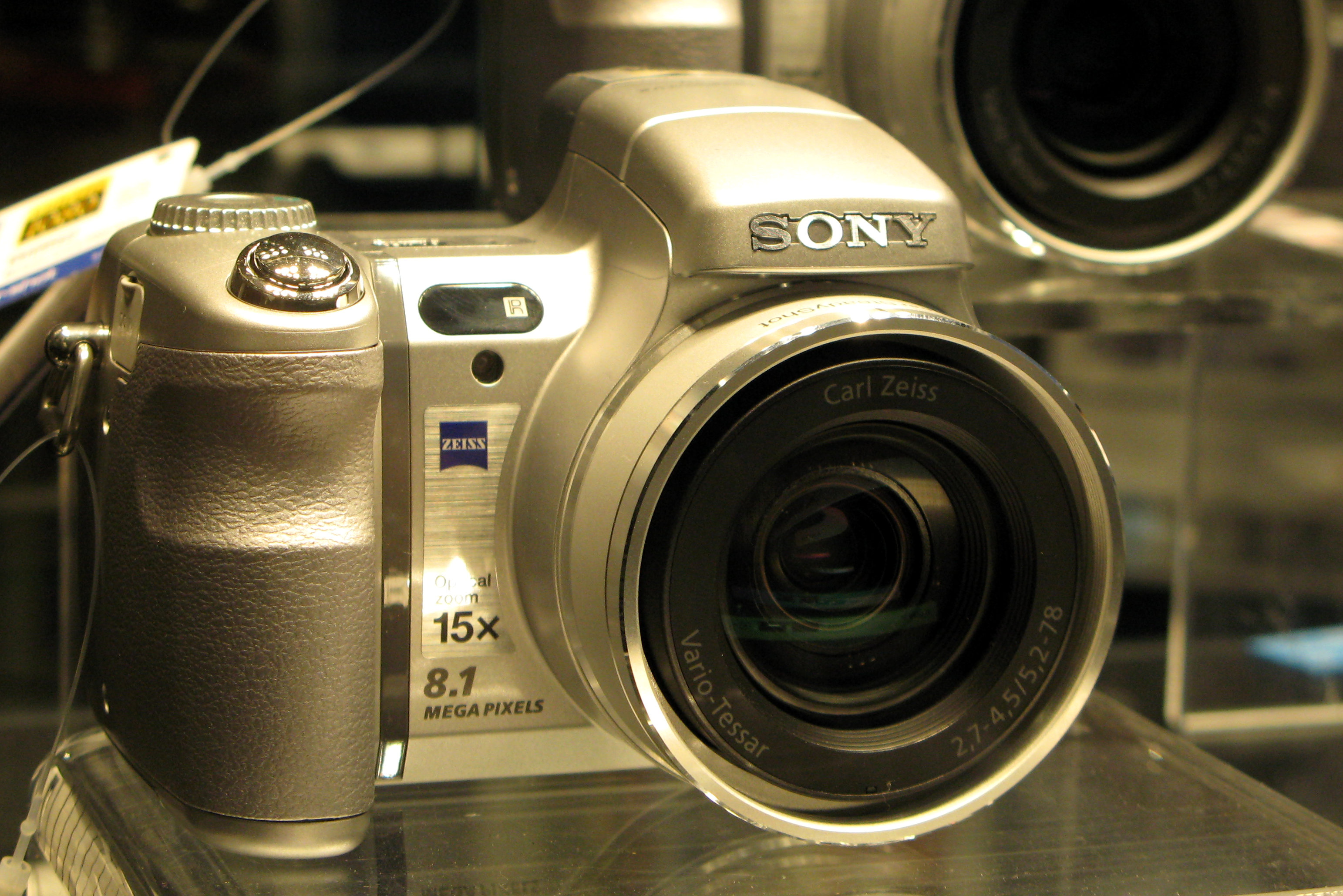 Picture of the Sony Cyber-shot DSC-H7 camera